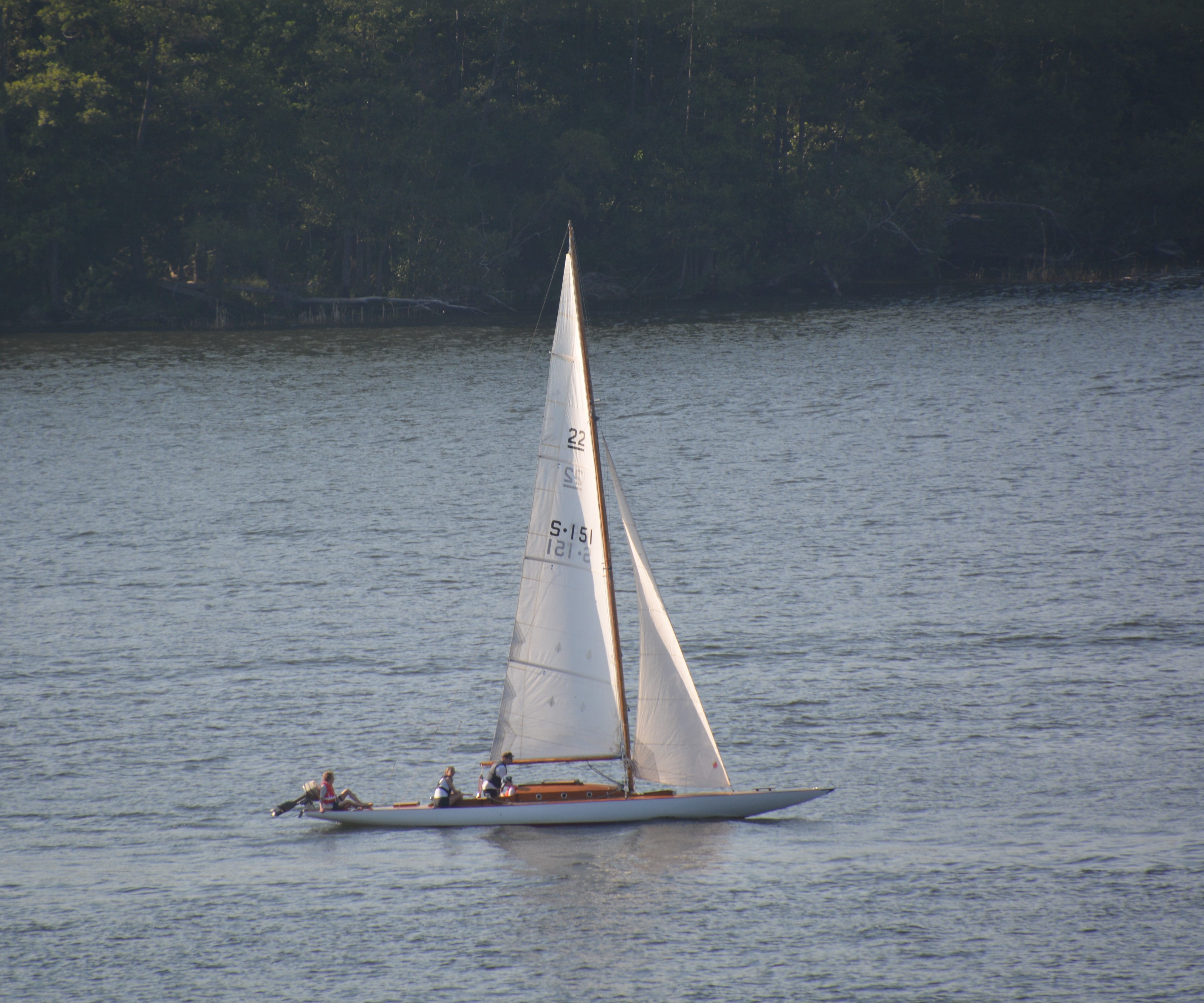 Sailing yacht type Mälar 22, lake Mälaren, Sweden